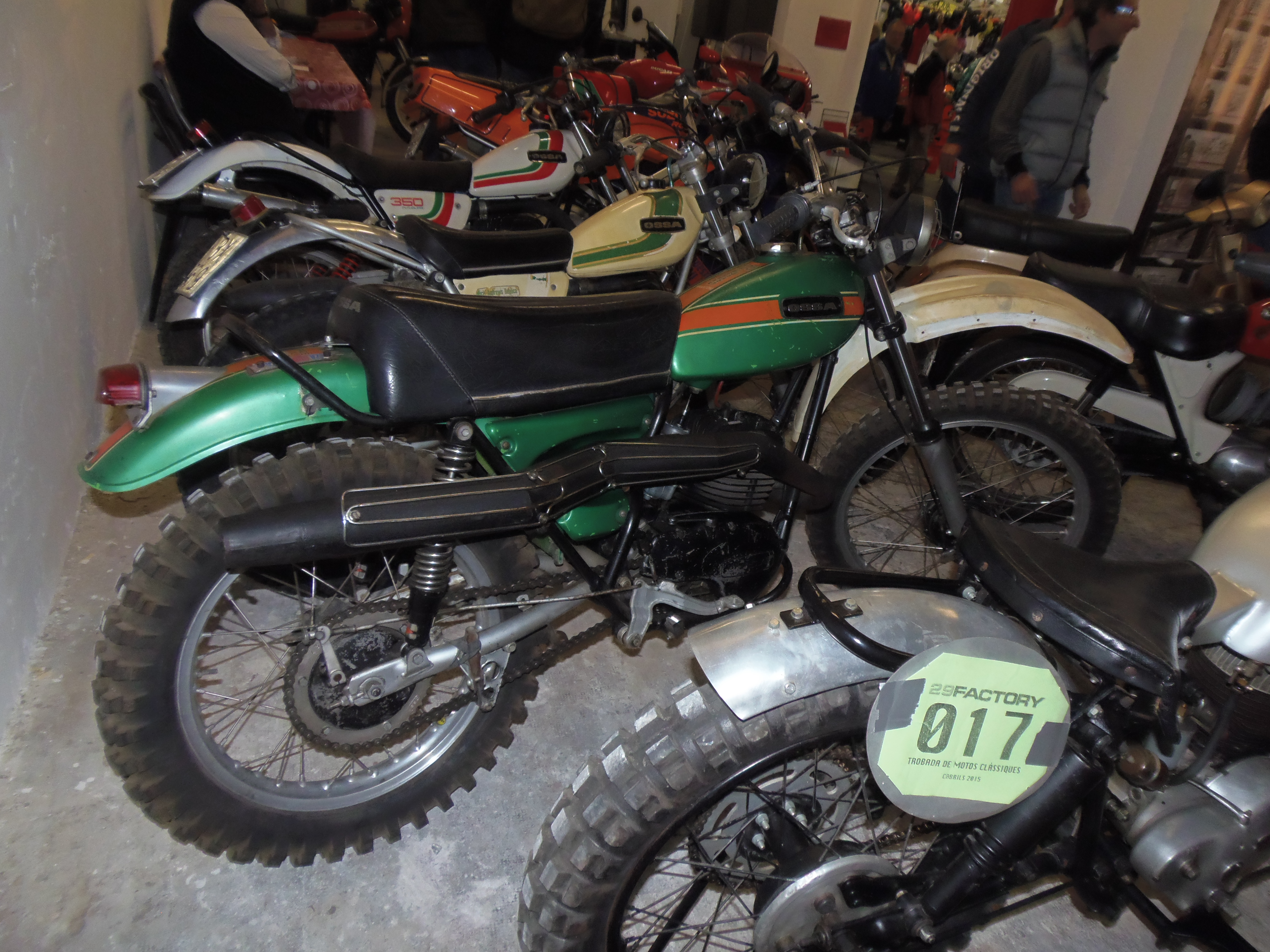 Ossa Enduro Phantom 125, 1975